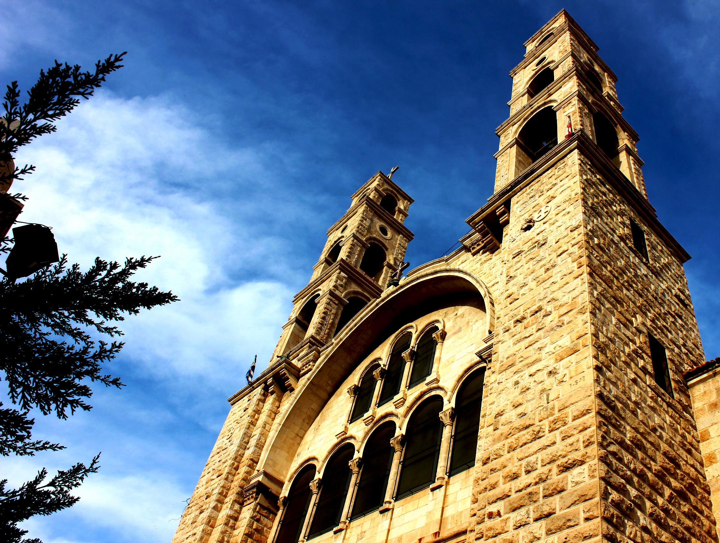 The picture shows the Church of Jacob's Well